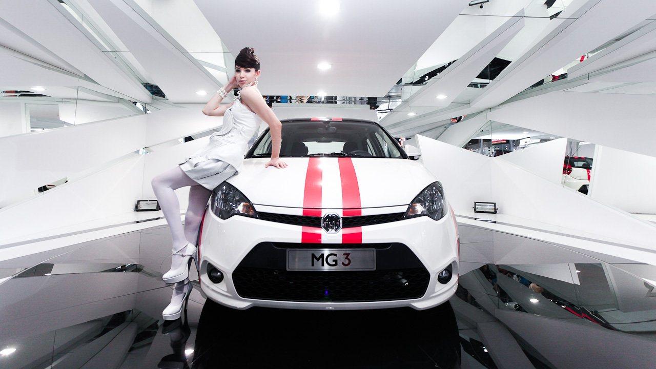 Presentation of the 2011 MG 3 at the 2010 Guangzhou Auto Show